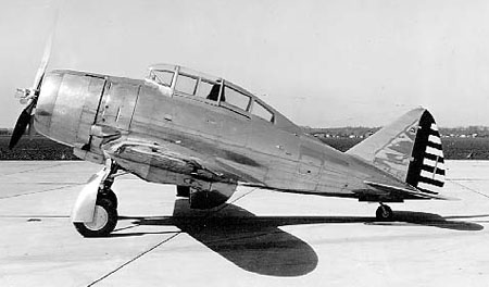 Seversky P-35, the first P-35